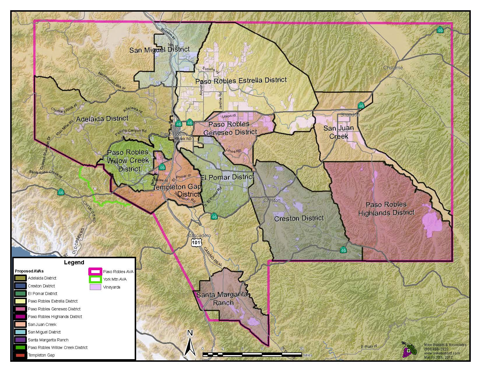 The Paso Robles AVA is California's largest in terms of area. See other AVAs that are contained within this large AVA.